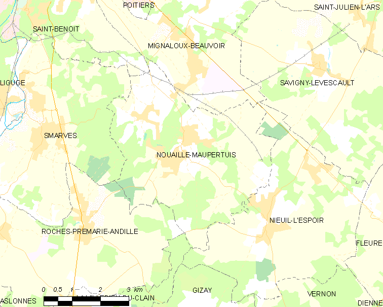 Map of French municipality Nouaillé-Maupertuis